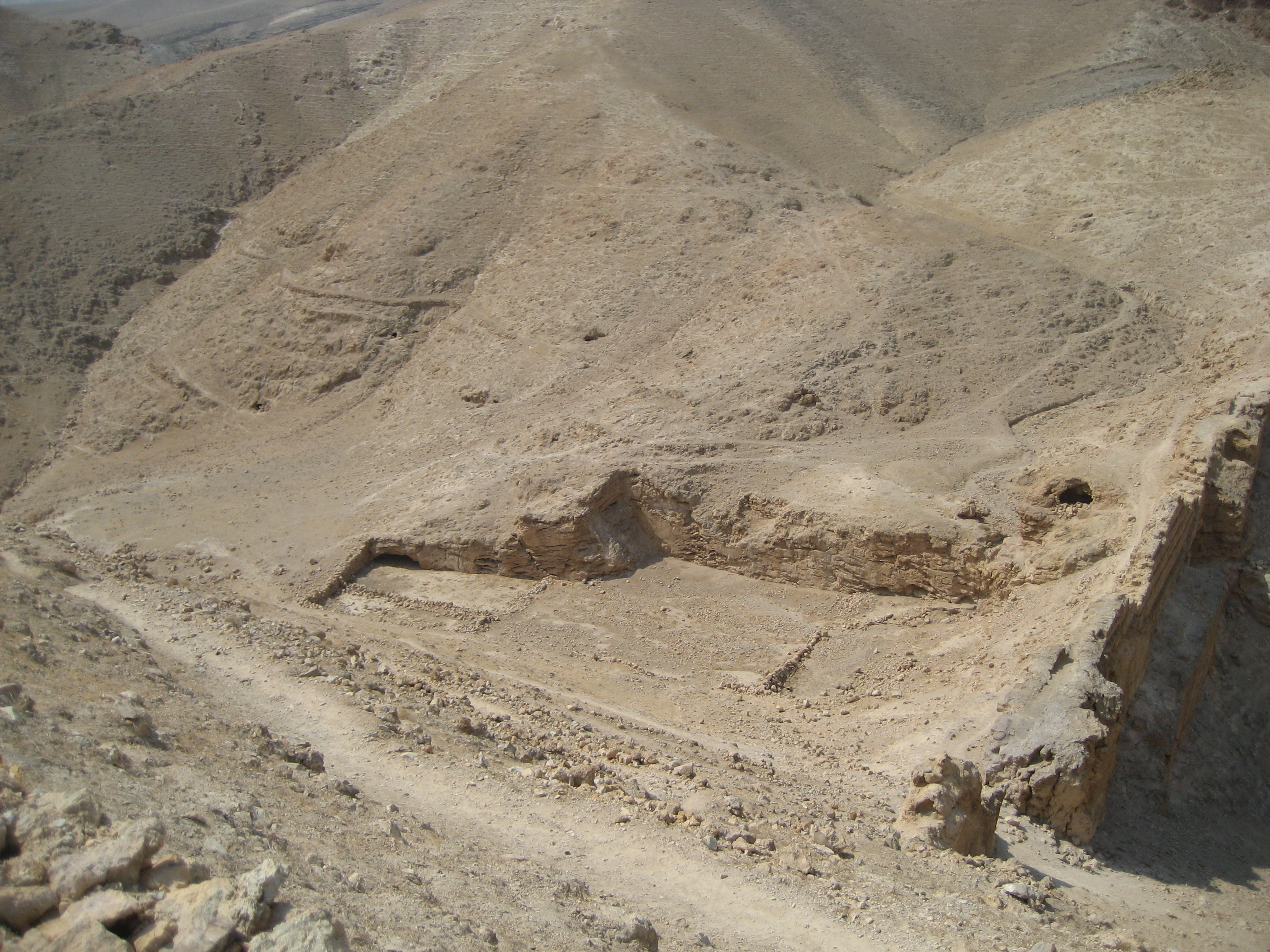 The orchid area of Hyrcania's fortress.